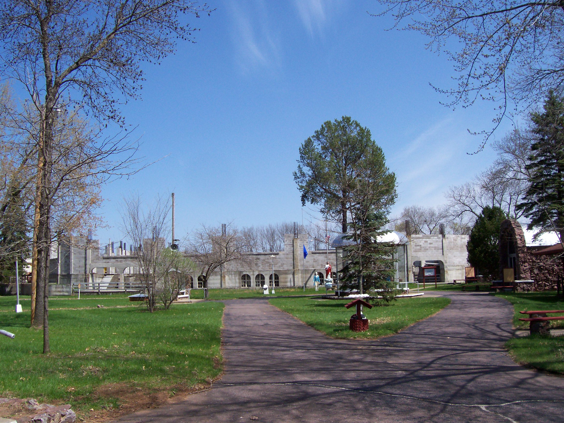 Looking east at the church under construction at the Necedah Shrine east of Necedah, Wisconsin, USA.